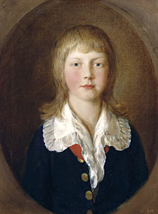 Portrait of Prince Ernest (aged about 11), later Duke of Cumberland and King of Hanover.